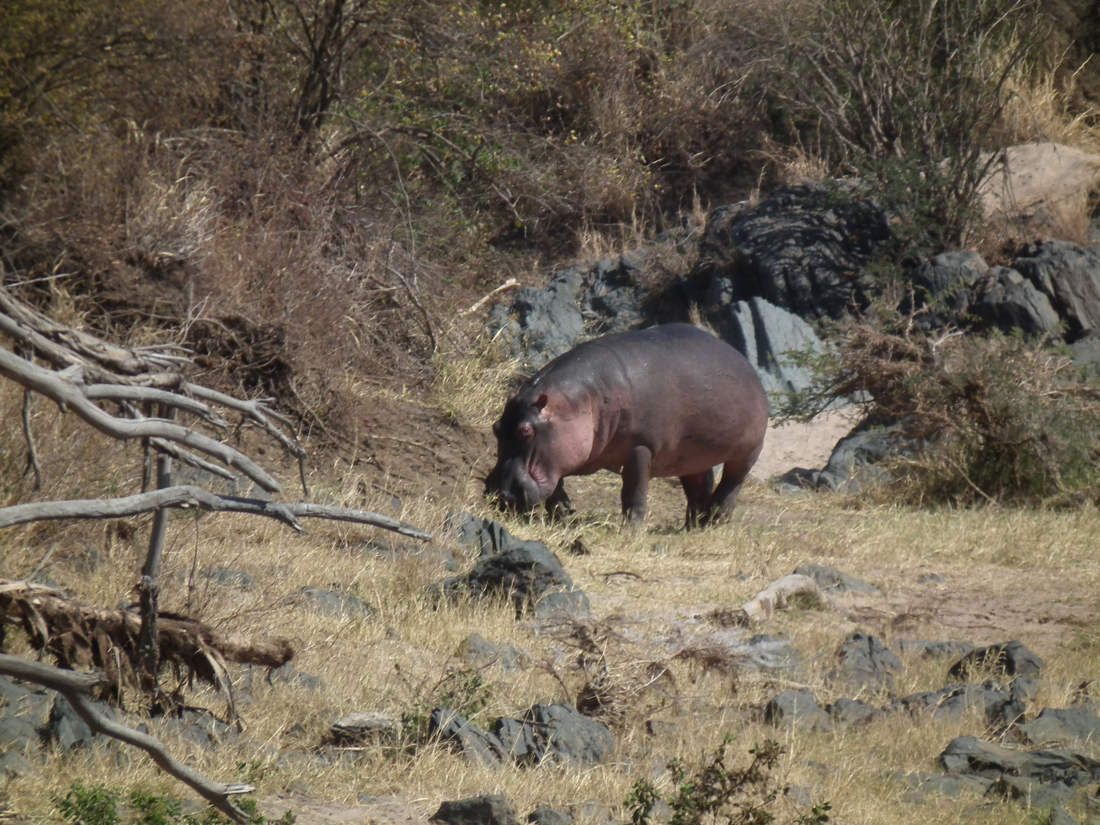 Hippopotamus amphibius from Tanzania